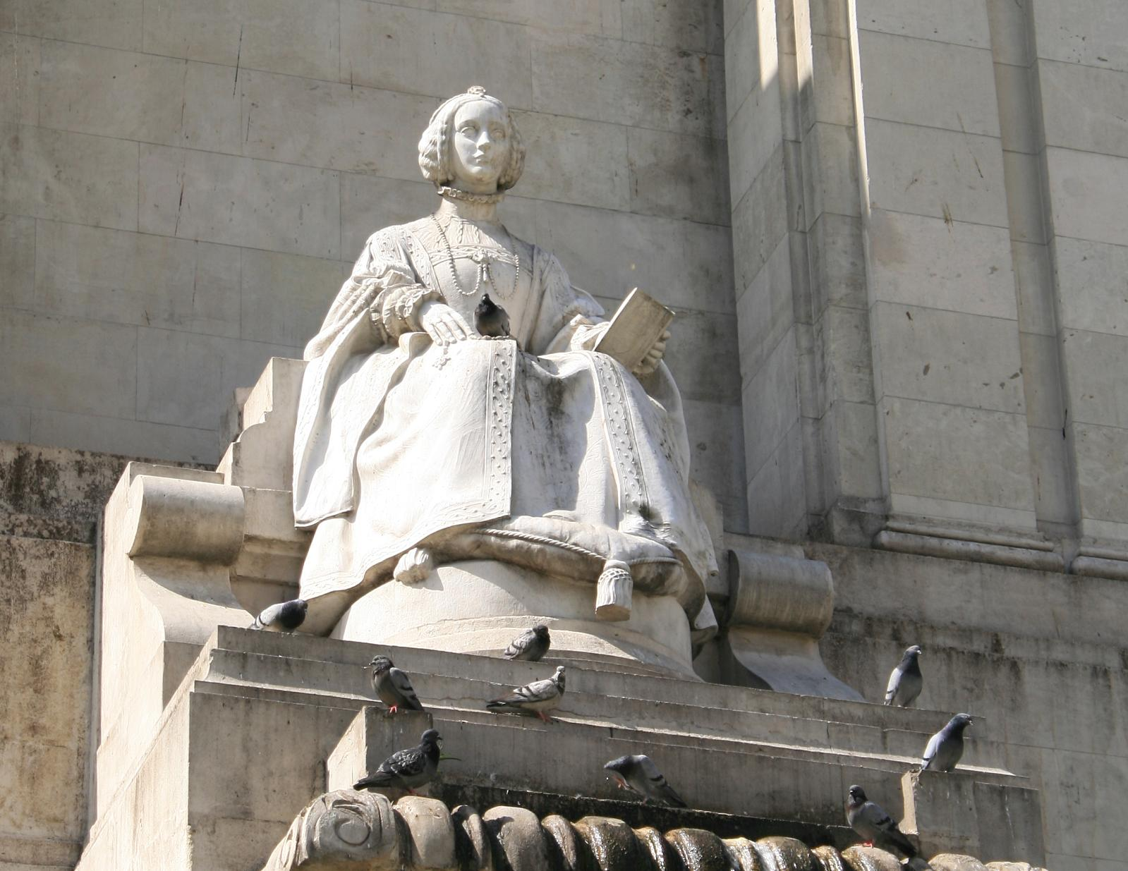 Allegory of Literature. Stone sculpture by Lorenzo Coullaut Valera (1876–1932). Detail of the monument to Cervantes (1925–30, 1956–57) at the Plaza de España ("Spain Square") in Madrid.